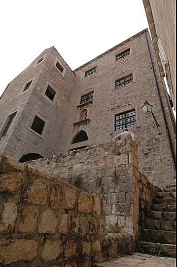 RUPE GRANARY – ONE OF SEVERAL GRANARIES WHICH STORED THE GRAIN IMPORTED FROM ALBANIA AND THE UKRAINE. ONLY ONE LEFT. IT IS NOW THE ETHNOGRAPHIC MUSEUM OF DUBROVNIK